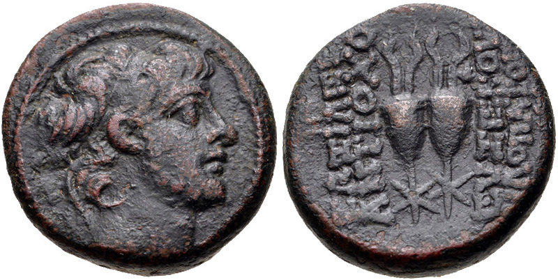 Copied from the website: "286, Lot: 166. Estimate $100. Sold for $260. This amount does not include the buyer’s fee. SELEUKID KINGS of SYRIA. Antiochos X Eusebes Philopator. Circa 94-88 BC. Æ (20mm, 8.69 g, 12h). Antioch mint. Struck circa 94 BC. Diademed head right / Piloi of the Dioskouri surmounted by stars; grape bunch to inner left, [monogram] to outer right. SC 2432.2b; HGC 9, 1292. VF, dark brown patina with some red."